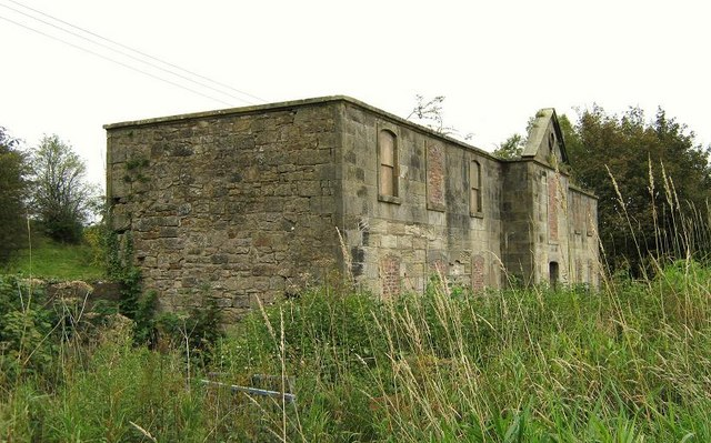 Craigmarloch Stables 19th century stables for canal horses. A "lade" travels from Banton Loch to the canal and on its way runs along the front of this building, just out of sight.